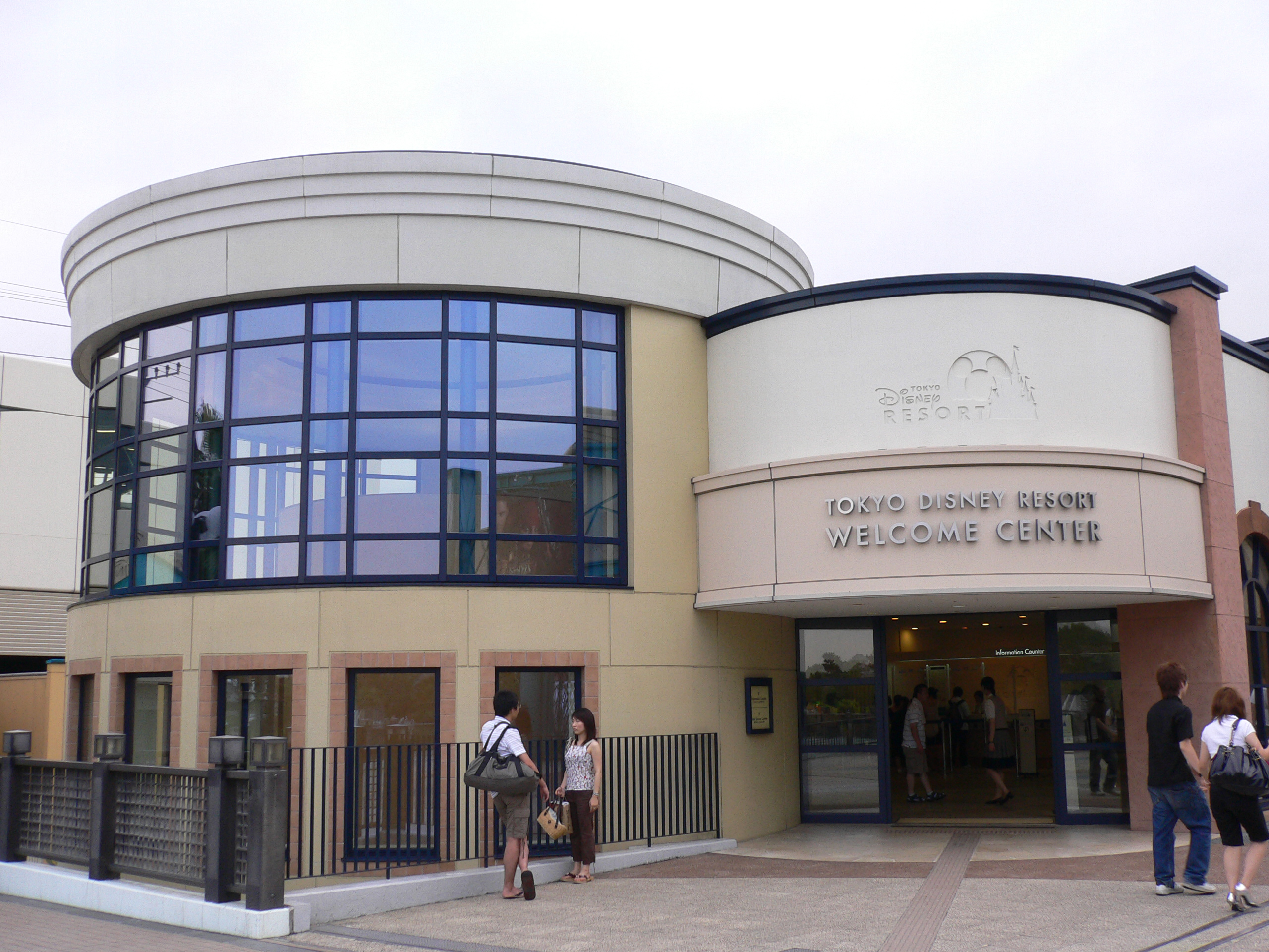 Tokyo Disney Resort Welcome Center